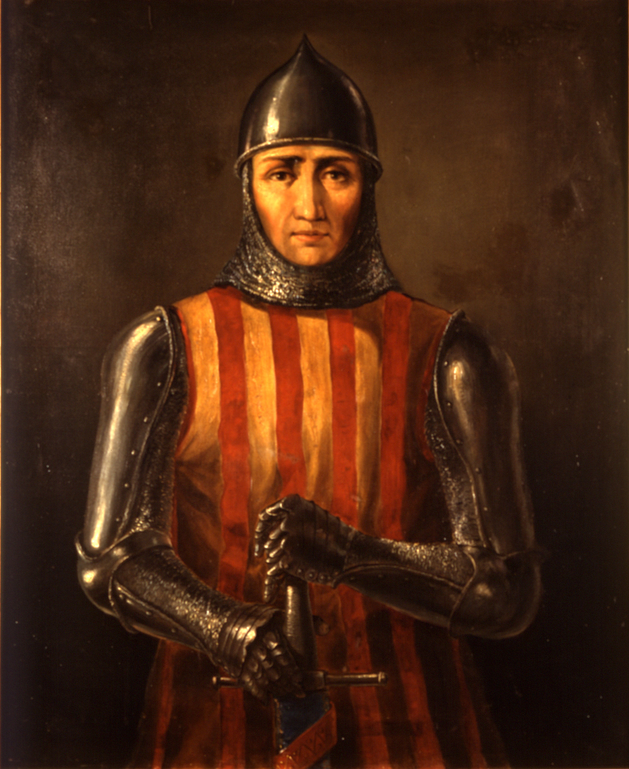 Half-length portrait of Roger of Lauria with red and yellow striped armor. Holds a sword with both hands. The background is neutral.